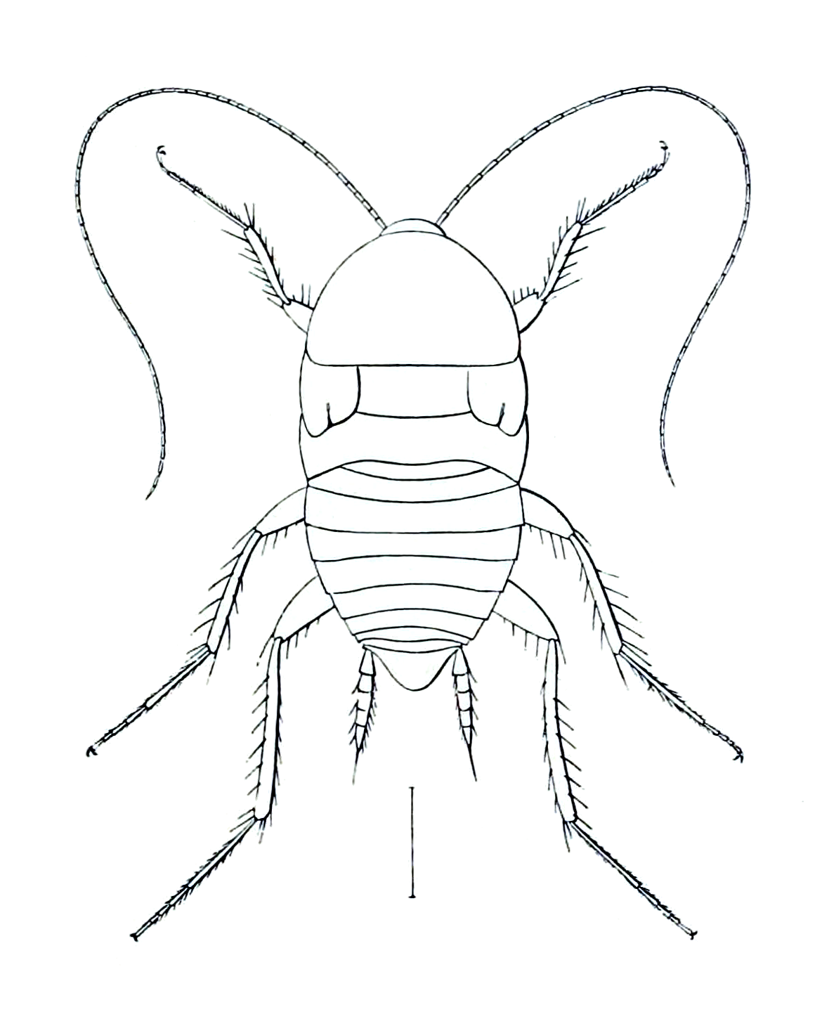 Spelaeoblatta gestroi (Blattodea: Nocticolidae).